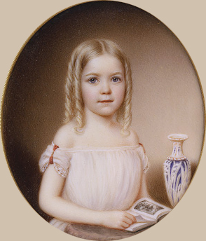 Kate Rosalie Dodge. The sitter (1846-?) was the artist's daughter, known as Roselie.